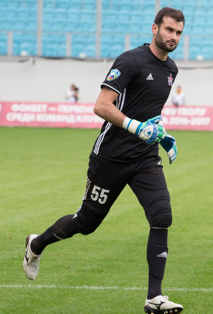 Aleksandr Krivoruchko with FC SKA-Khabarovsk against FC Dynamo Moscow.